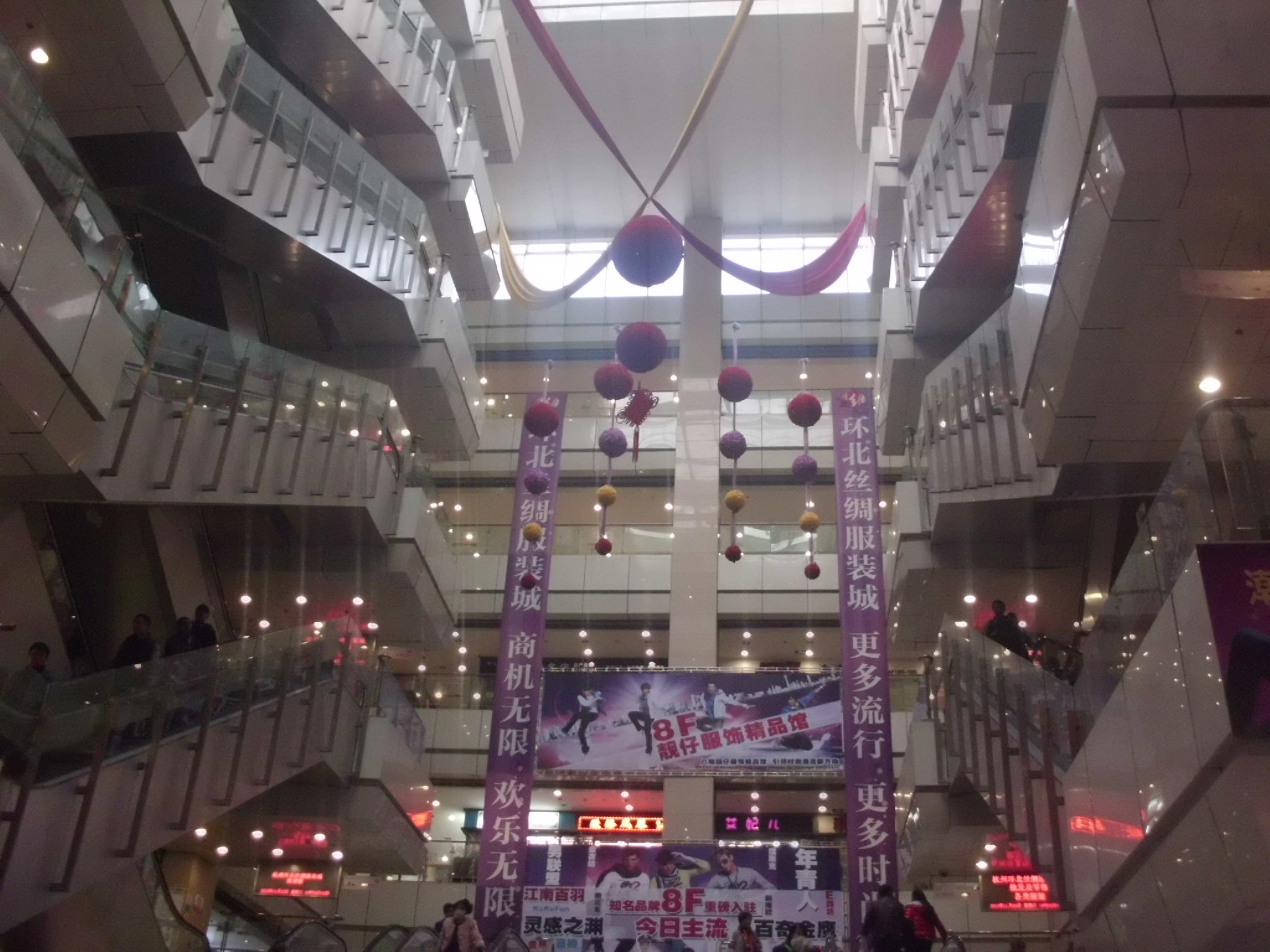 Hangzhou China Silk Town